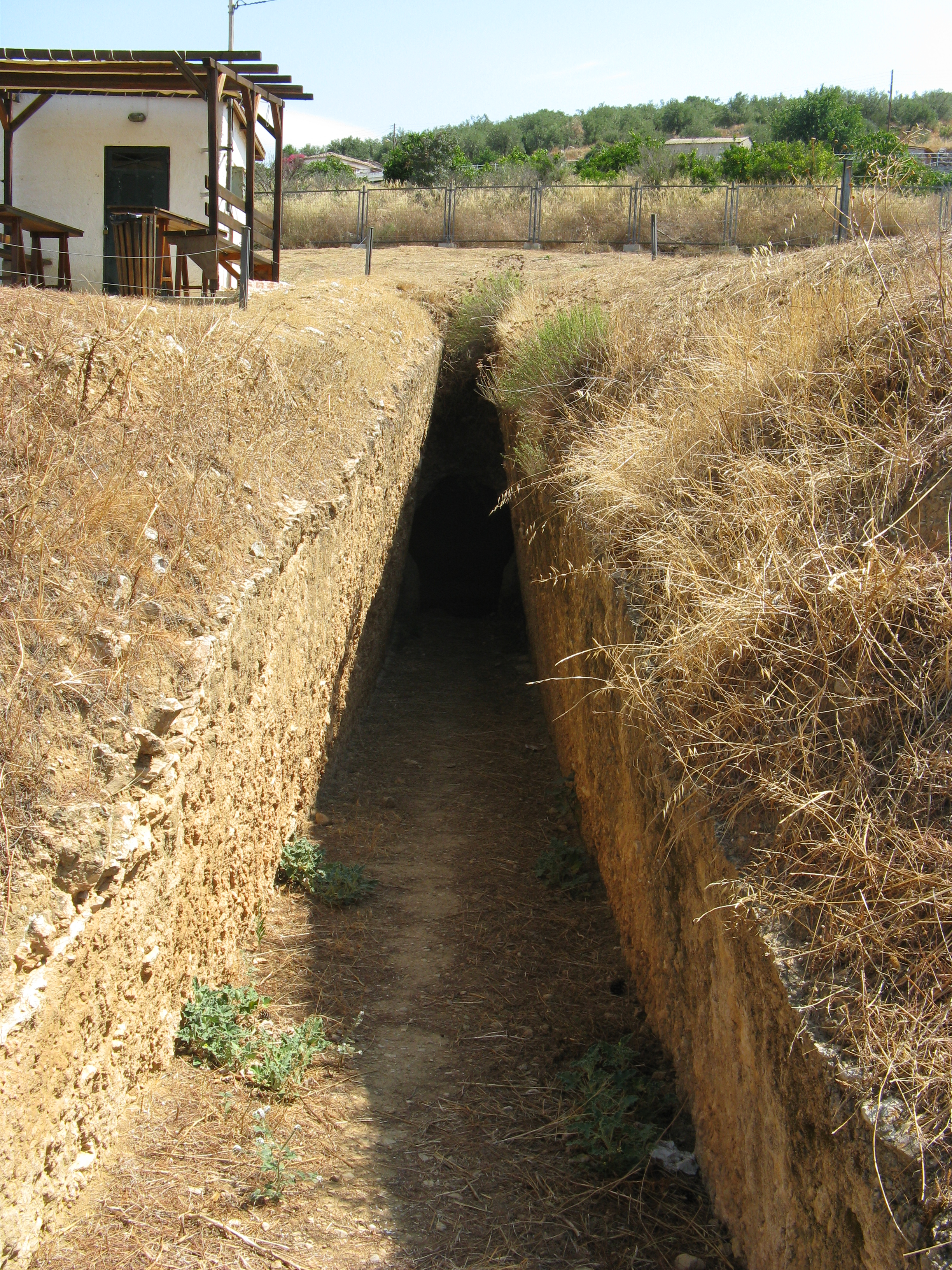 Mycenaean tomb at Dendra cemetery: chamber tomb 2